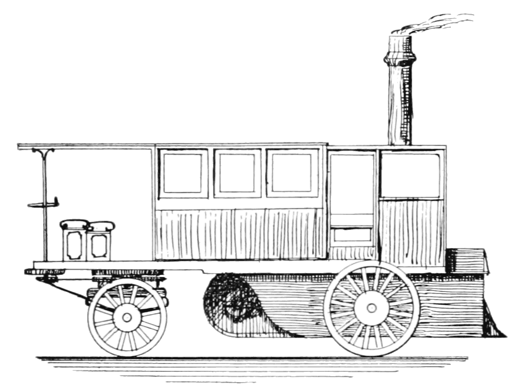 Steam ominubus made by Hancock